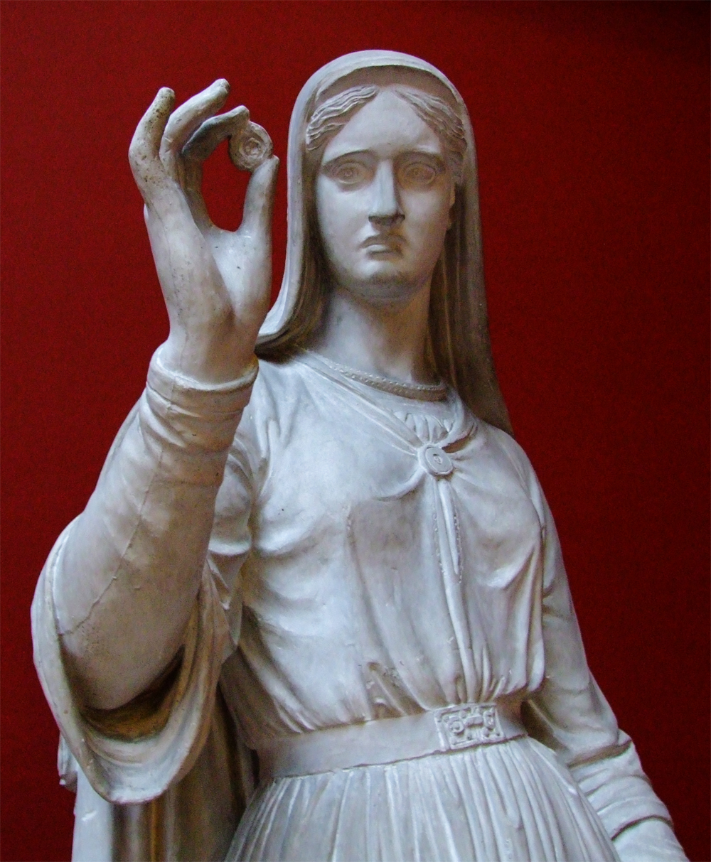 A photograph of "Ingeborg" (1857) by H. W. Bissen (1798-1868), housed at the Ny Carlsberg Glyptotek, Copenhagen, Denmark.